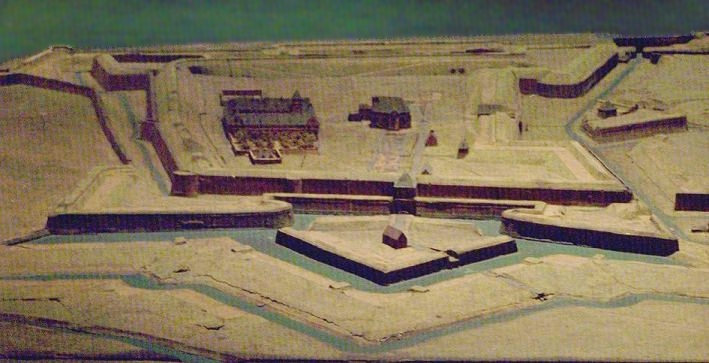 Calais' citadel : south view on the relief map of the town.